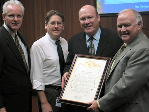 From left to right: Tom Daly, Clerk-Recorder; Phil Brigandi, County Archivist; N. Christian Anderson, Publisher; Bill Campbell, Chairman of the Board of Supervisors. There are no known copyright restrictions on this image. All future uses of this photo should include the courtesy line, "Photo courtesy Orange County Archives."